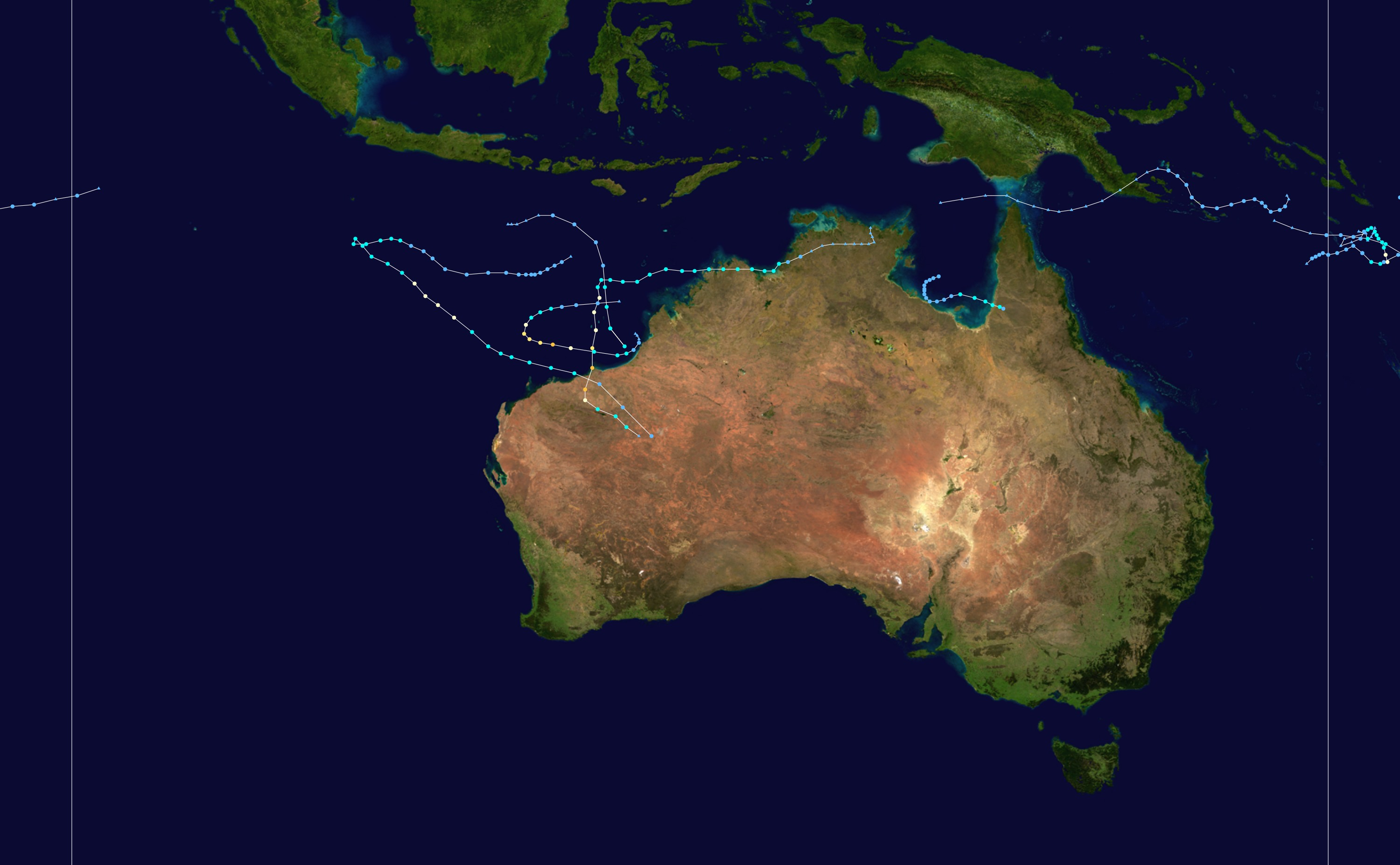 This map shows the tracks of all tropical cyclones in the 2006-07 Australian region cyclone season. The points show the location of each storm at 6-hour intervals. The colour represents the storm's maximum sustained wind speeds as classified in the Saffir-Simpson Hurricane Scale (see below), and the shape of the data points represent the type of the storm. Saffir–Simpson hurricane wind scale Tropical depression≤38 mph≤62 km/h Category 3111–129 mph178–208 km/h Tropical storm39–73 mph63–118 km/h Category 4130–156 mph209–251 km/h Category 174–95 mph119–153 km/h Category 5≥157 mph≥252 km/h Category 296–110 mph154–177 km/h Unknown Storm typeTropical cycloneSubtropical cycloneExtratropical cyclone / Remnant low / Tropical disturbance